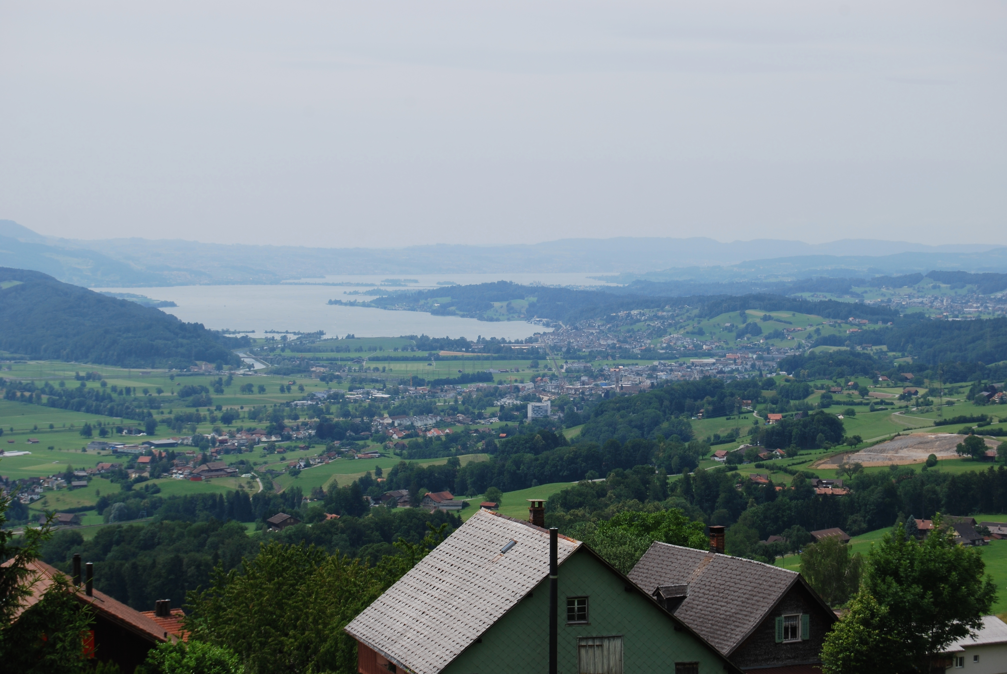 View from Rieden to Uznach, Schmerikon and Upper Lake Zurich, canton of St. Gallen, Switzerland